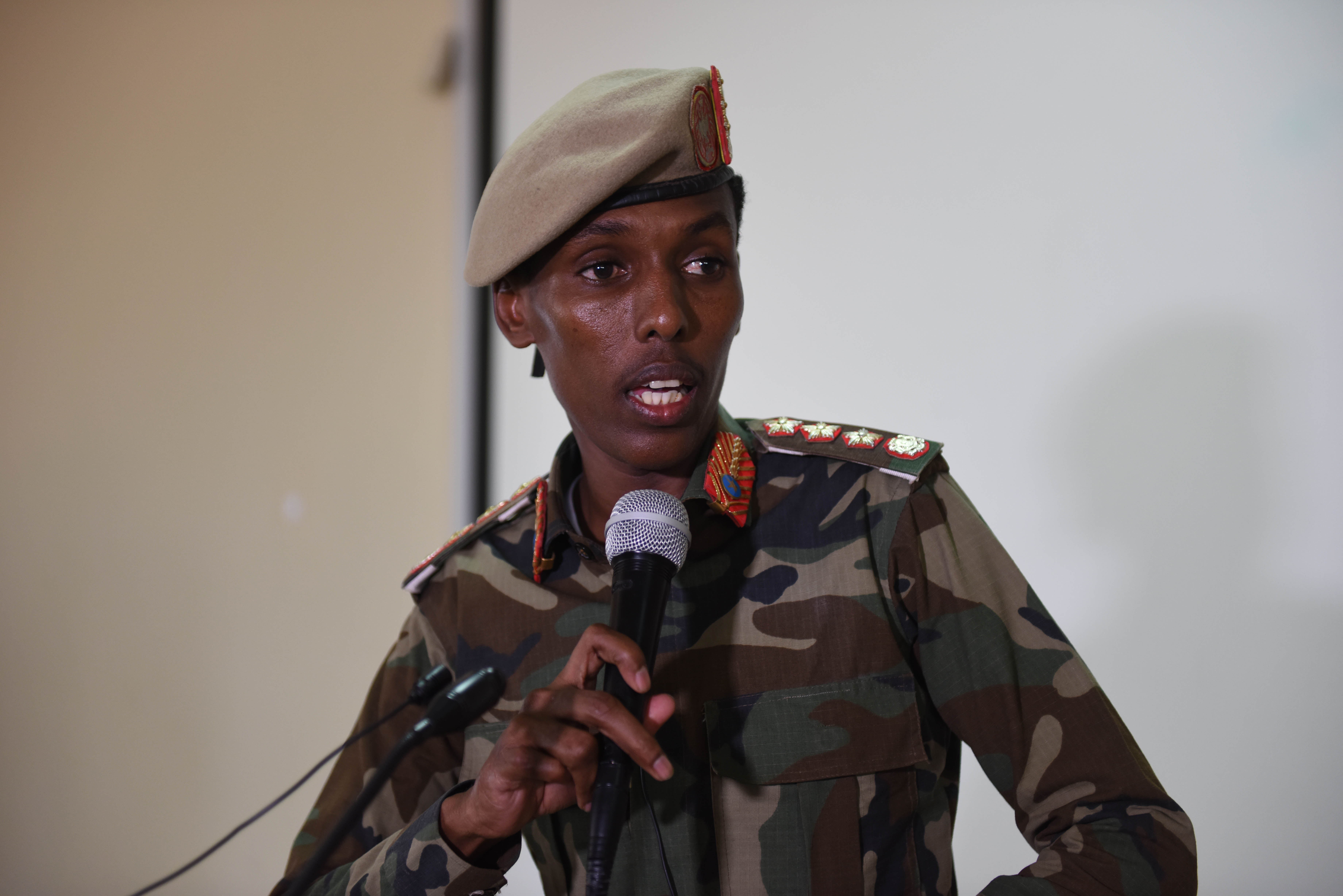 Brig. Gen. Odawaa Yussuf Raage, the Chief of Staff of Somalia's Defence Forces (CDF) addresses Somali National Army (SNA) commanders and soldiers at the Gen. Gordon Military Training Academy in Mogadishu Somalia on 28 March 2019. This was during an event at which the AMISOM Protection, Human Rights, and Gender Office visited the academy to brief SNA soldiers and commanders on the international humanitarian law governing the conduct of operations in Somalia and the UN Human Rights Due Diligence Policy (HRDDP). AMISOM distributed copies of the code of conduct to the combatants. AMISOM Photo / Abdikarim Mohamed